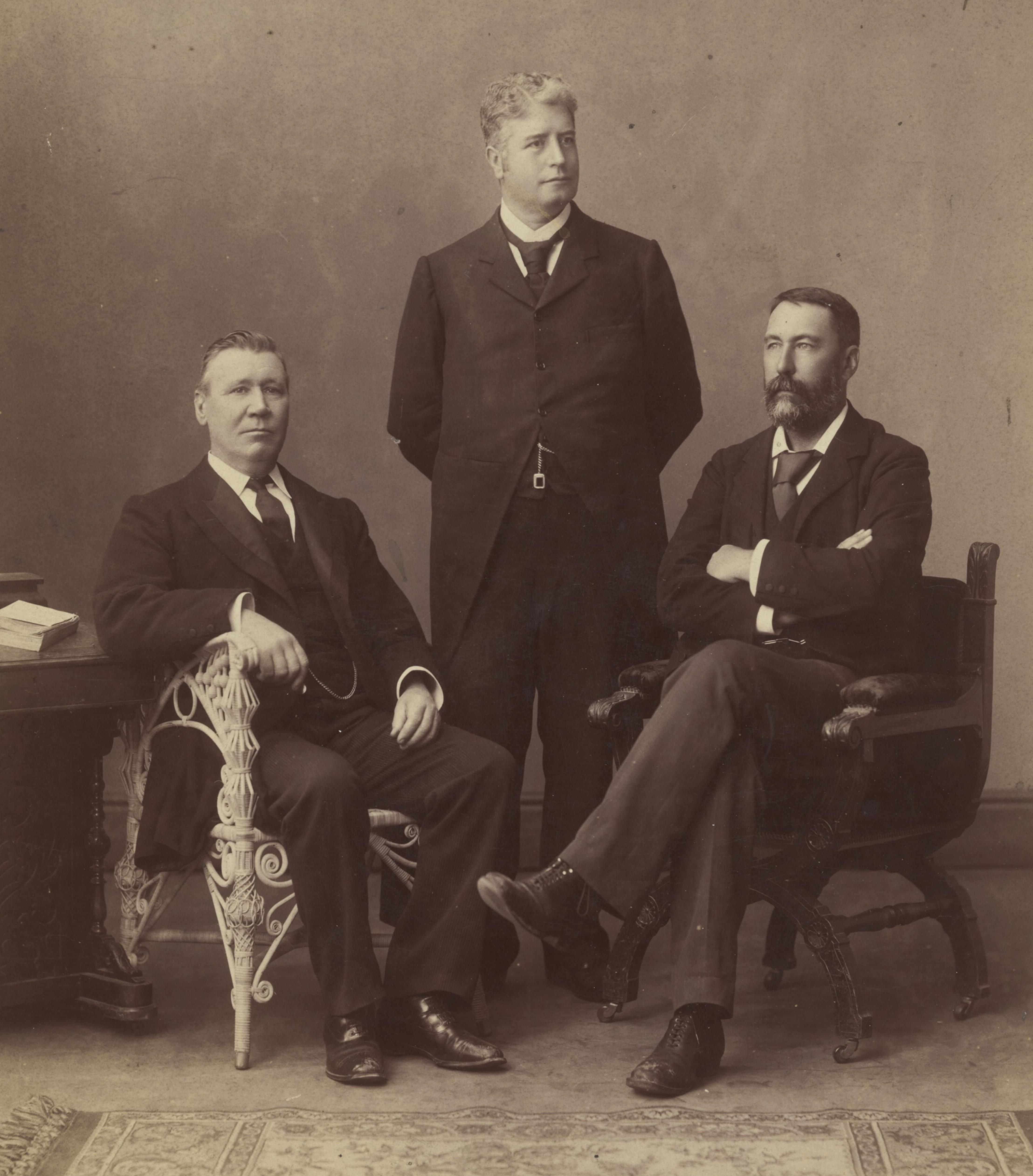 Drafting Committee of the Commonwealth Constitution, appointed at the Adelaide Convention, 1898. From left to right: John Downer, Edmund Barton, R. E. O'Connor